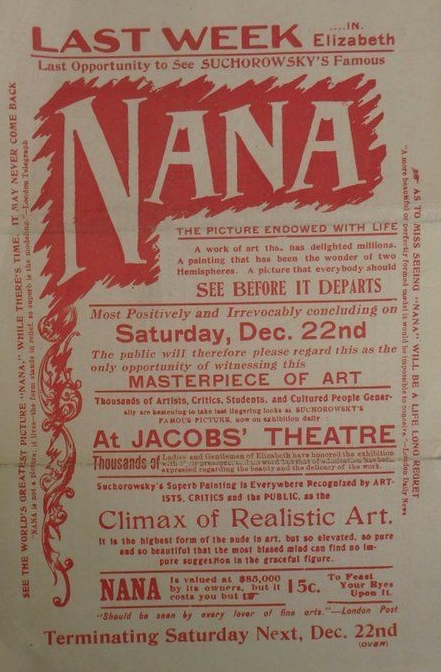 Rare 1894 Nana Oil painting by Marcel Suchorowsky Exhibit advertising flyer